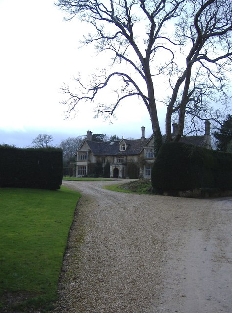 Trull House Built in 1843. The gardens are open to the public, during the summer season.